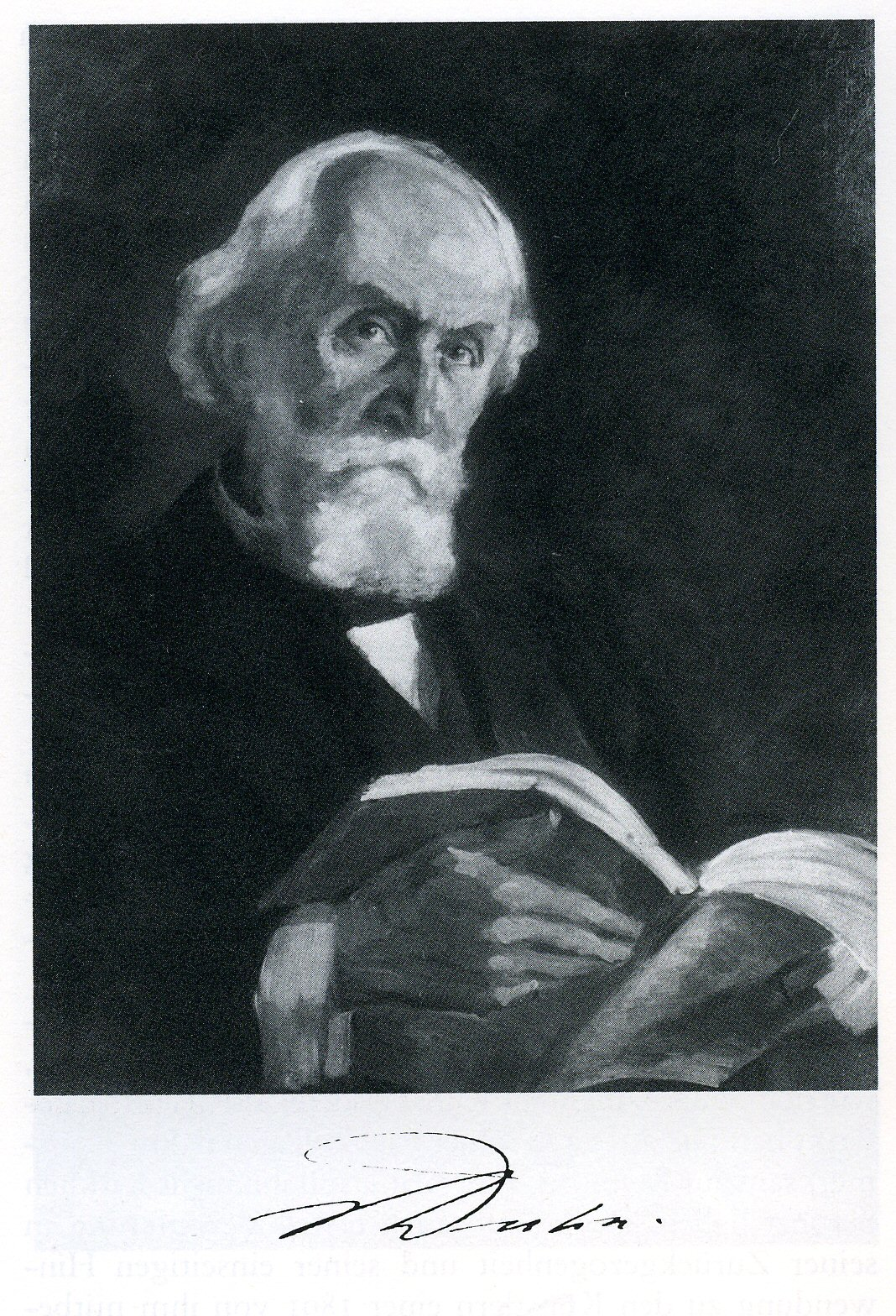 German Archaeologist Friedrich von Duhn (1851-1930) in a painting by Ludwig Würzele in 1926